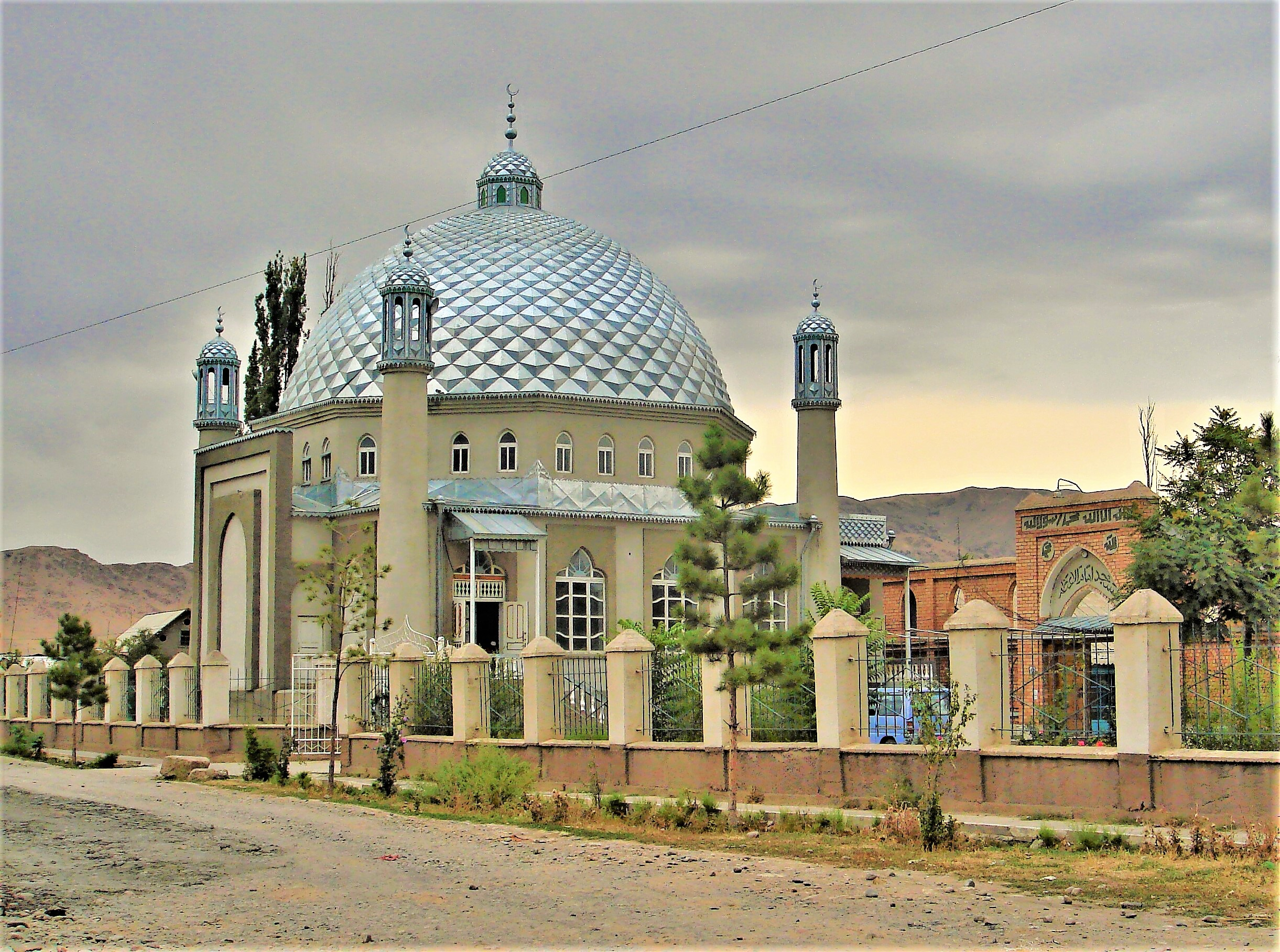 A mosque in Tokmok (Chuy Province, Kyrgyzstan).